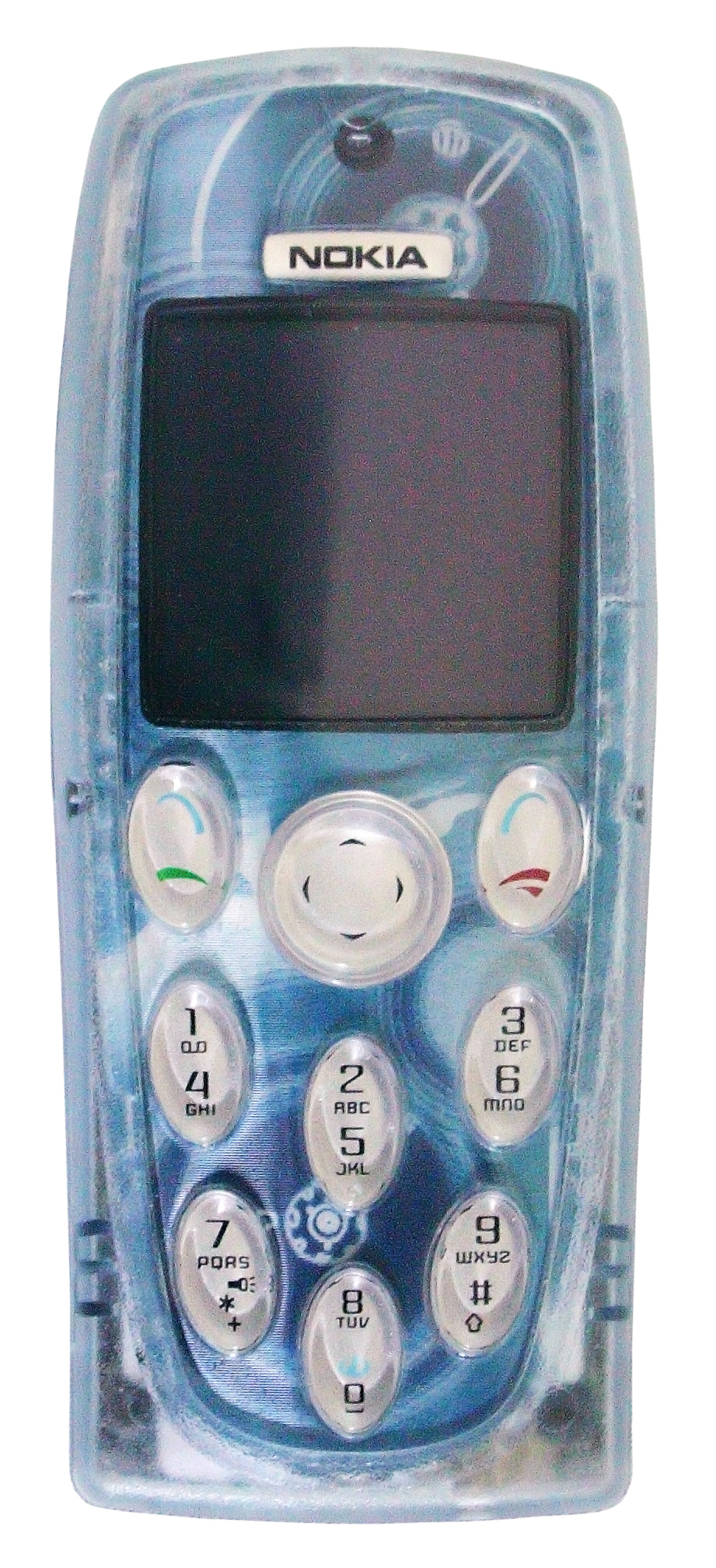 Nokia 3200 mobile phone